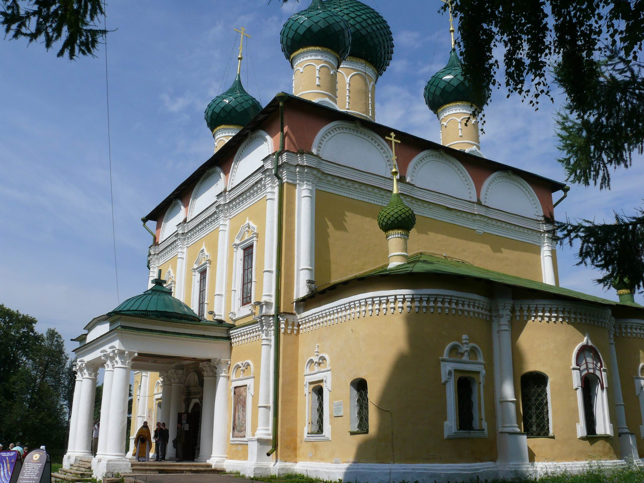 Transfiguration Cathedral in Uglich, Russia